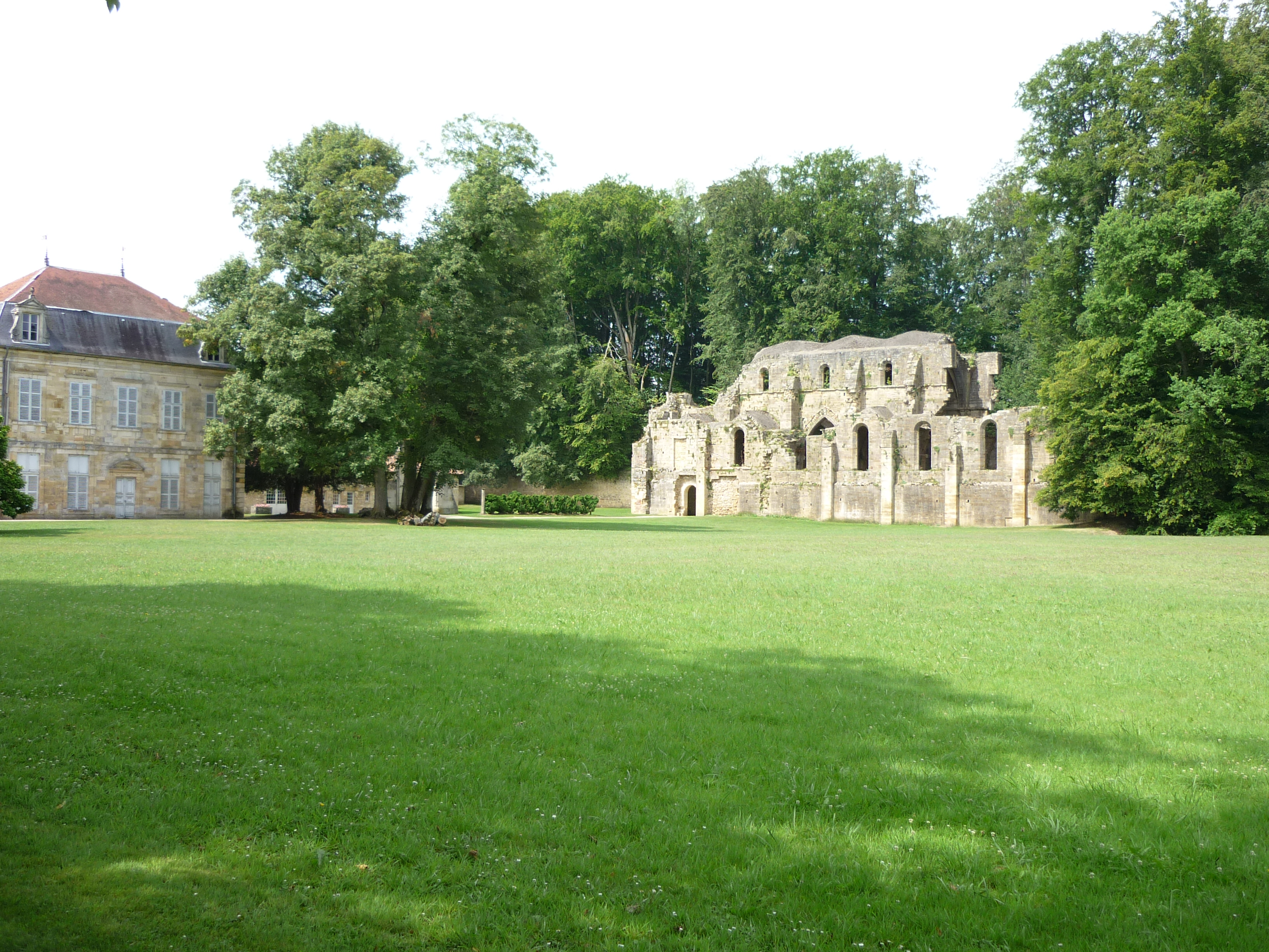 Trois Fontaines Abbey-church (ruin) and Kouis_XV-building